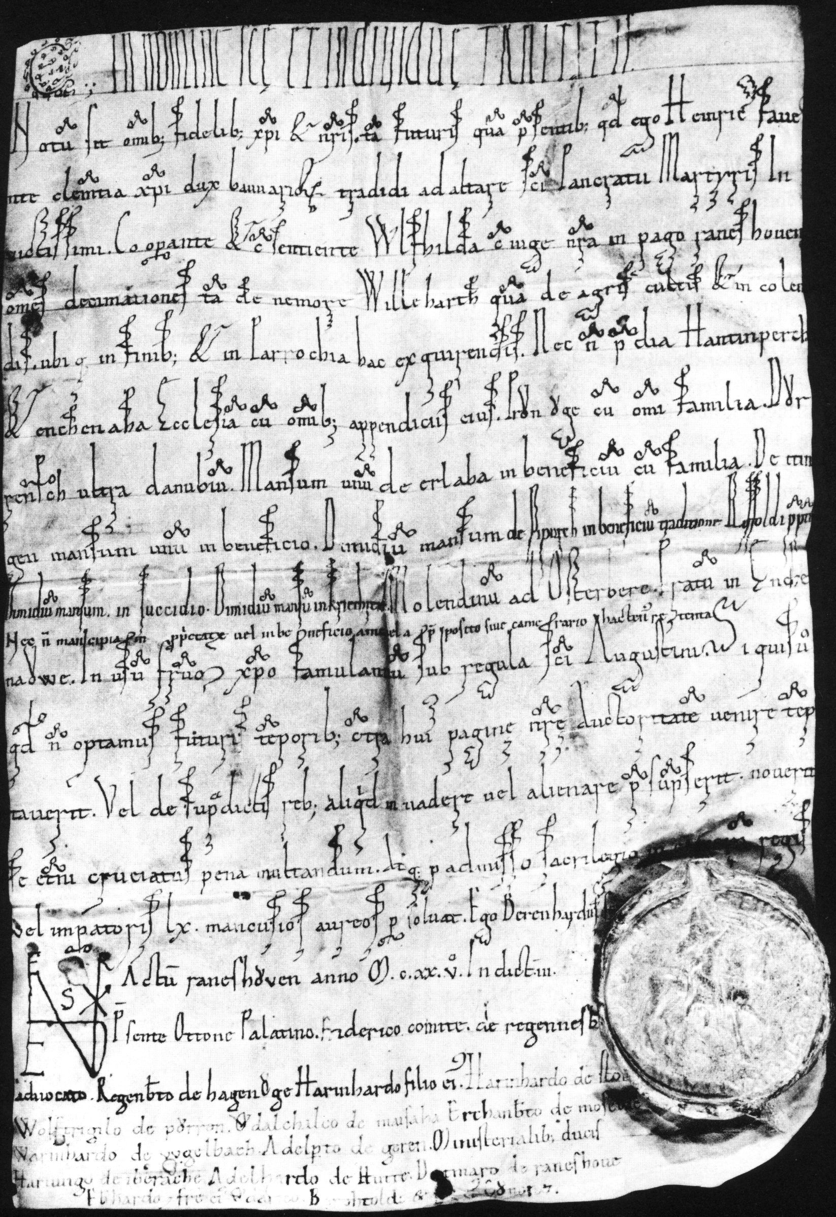 Charter of duke Henry IX of Bavaria for Stift Ranshofen, issued on July 30th, 1125. München, Bayerisches Hauptstaatsarchiv, KU Ranshofen 2.